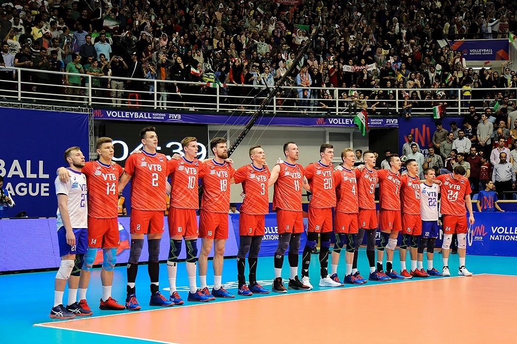 Russia men's national volleyball team in a match against Iran men's national volleyball team during 2019 FIVB Volleyball Men's Nations League in Ardabil, Iran.